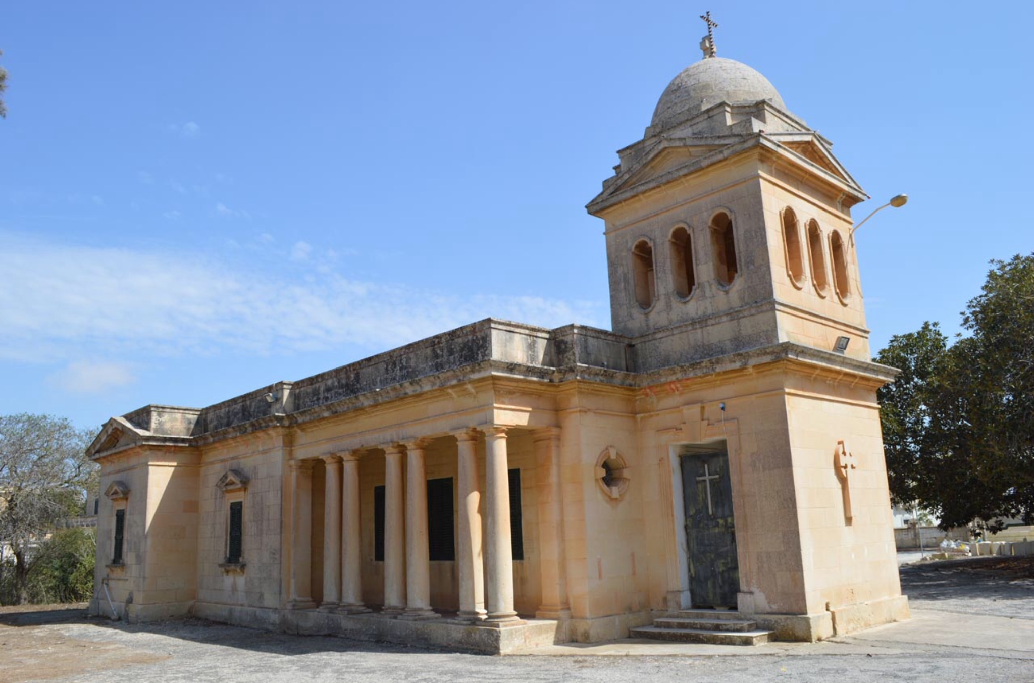 Church of St Oswald This media is about Maltese cultural property with inventory number 02317.